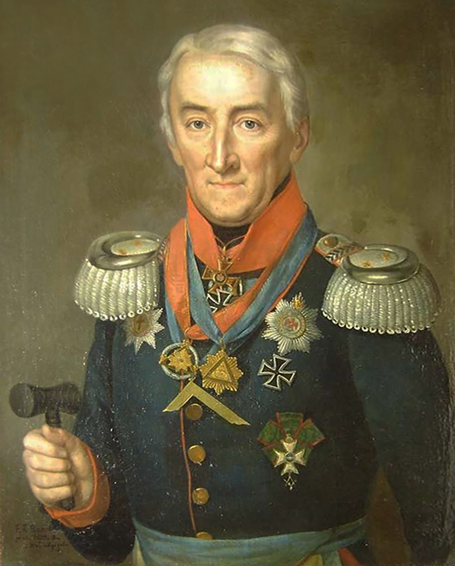 Leopold Wilhelm von Dobschütz (1763-1836), prussian general, decorated with insignia of the freemasons